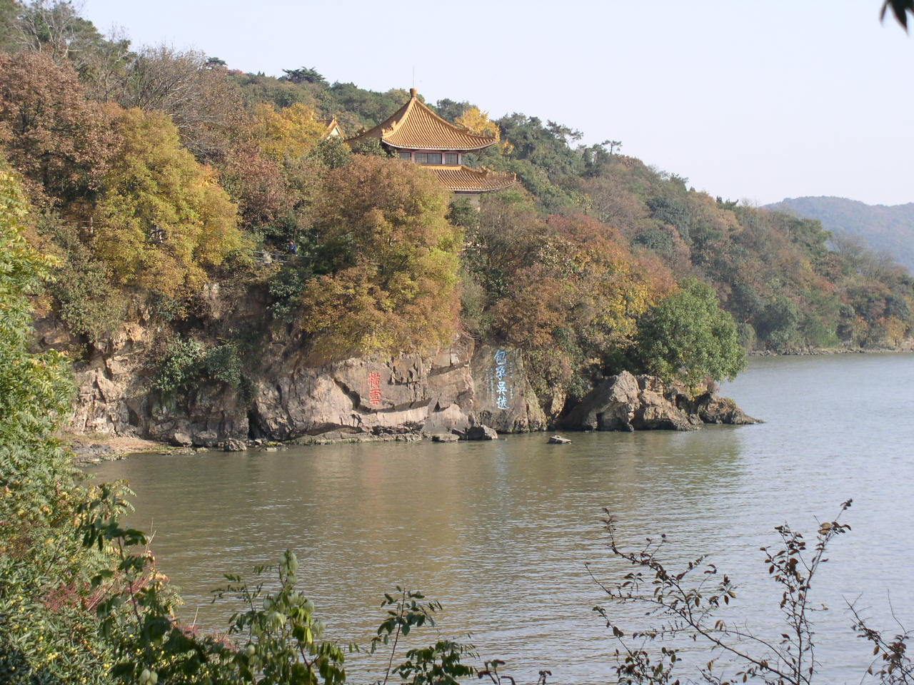 Wuxi Taihu lake